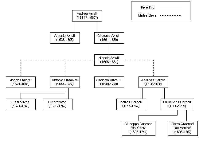 Seeltersk: This is a file